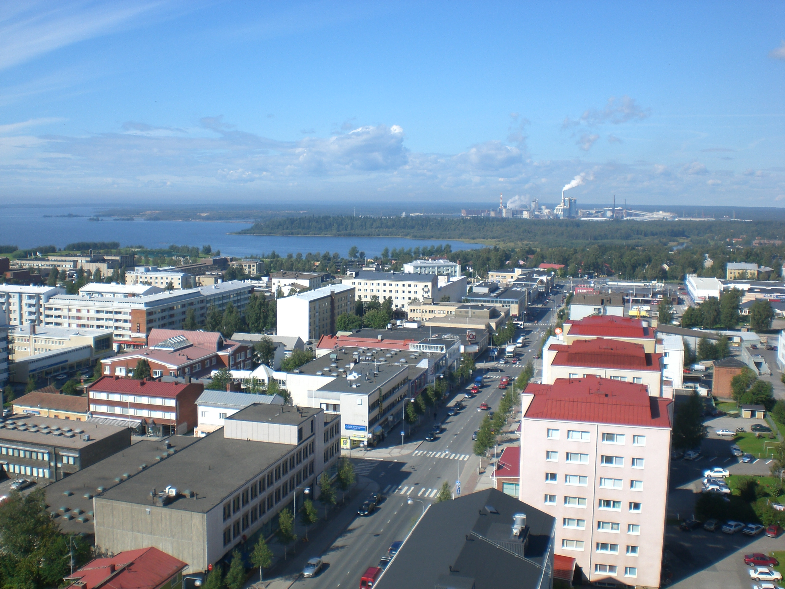 City centre of Kemi, Finland